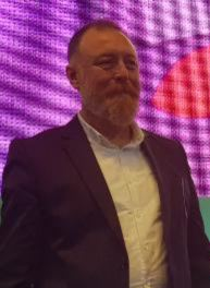 HDP 3rd Ordinary Congress